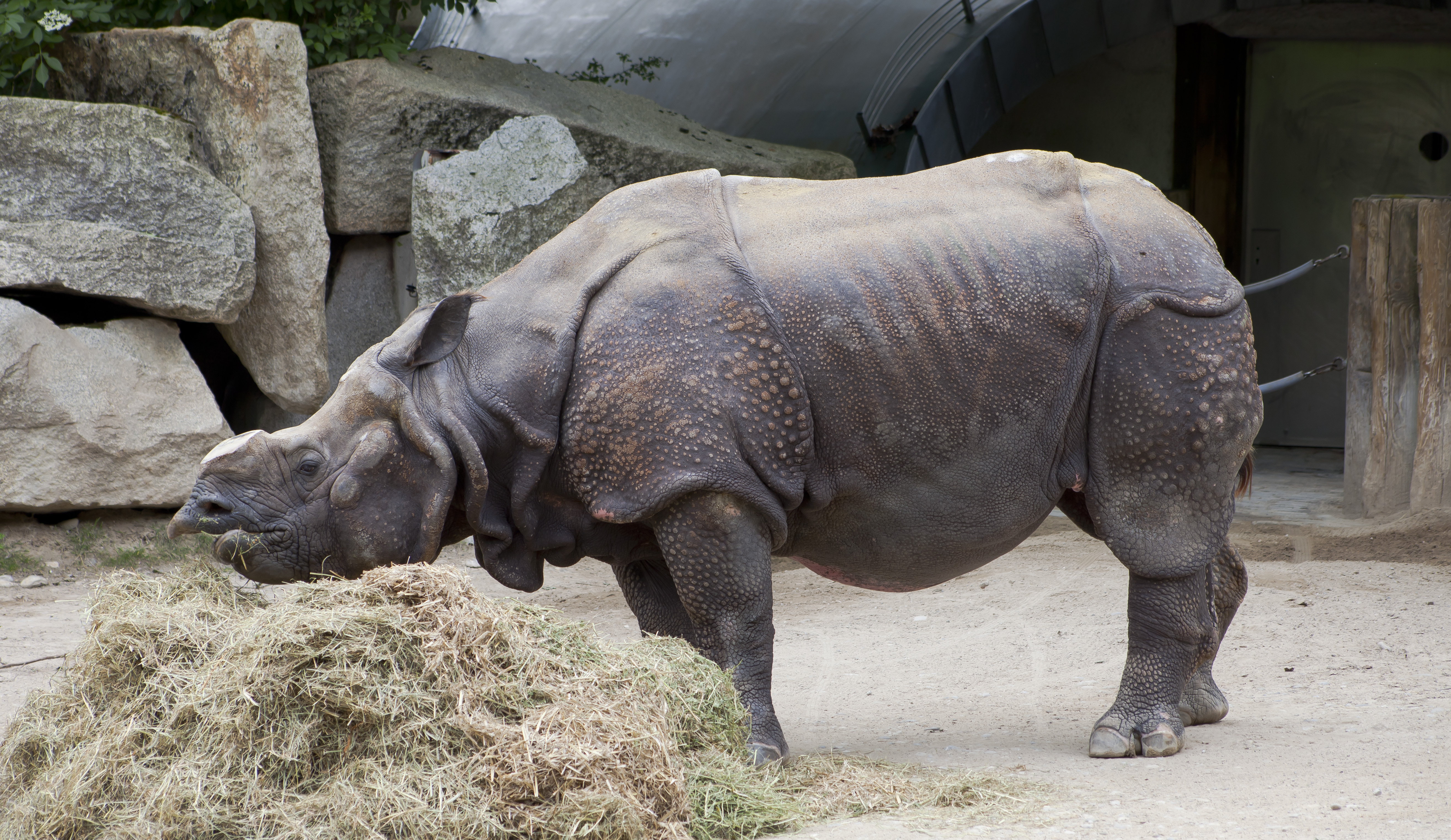 Indian rhinoceros (Rhinoceros unicornis), Tierpark Hellabrunn, Munich, Germany